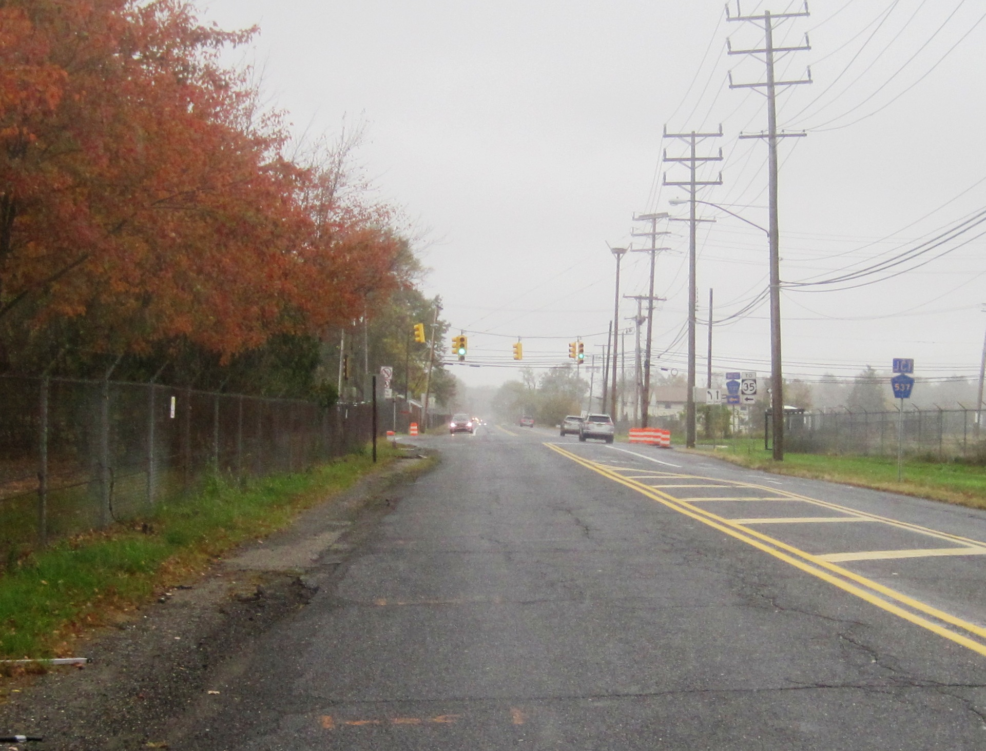 Photo showing the eastern terminus of County Route 537 looking north along Oceanport Avenue (CR 11) in Oceanport, New Jersey. The former Fort Monmouth is on the left.